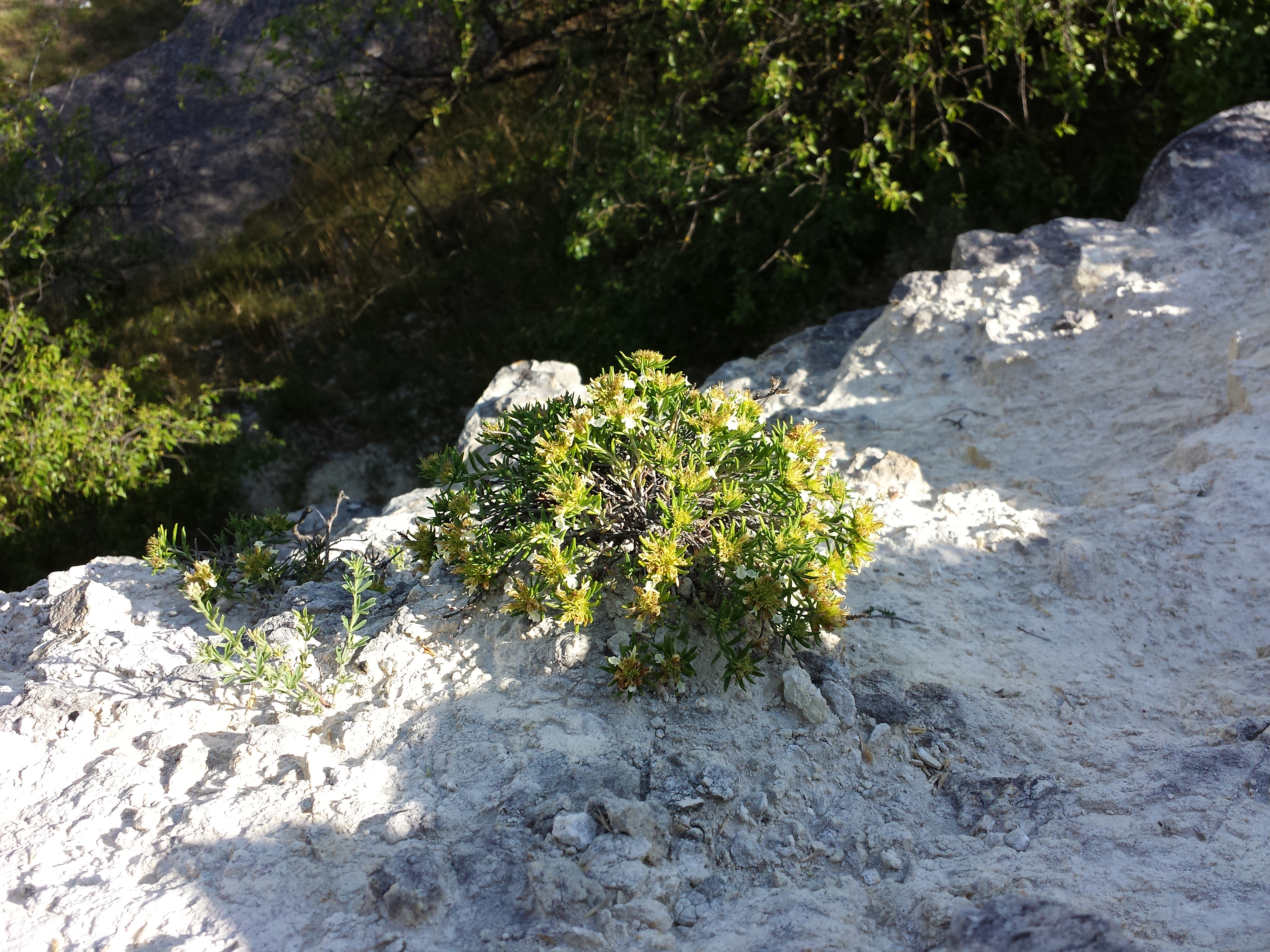 Habitus Taxon: Teucrium montanum (sensu Fischer et al. EfÖLS 2008 ISBN 978-3-85474-187-9; det. M. A. Fischer 2014-06-14) Location: Schweinbarther Berg, district Mistelbach, Lower Austria - ca. 330 m a.s.l. Habitat: rock steppe (lime stone)